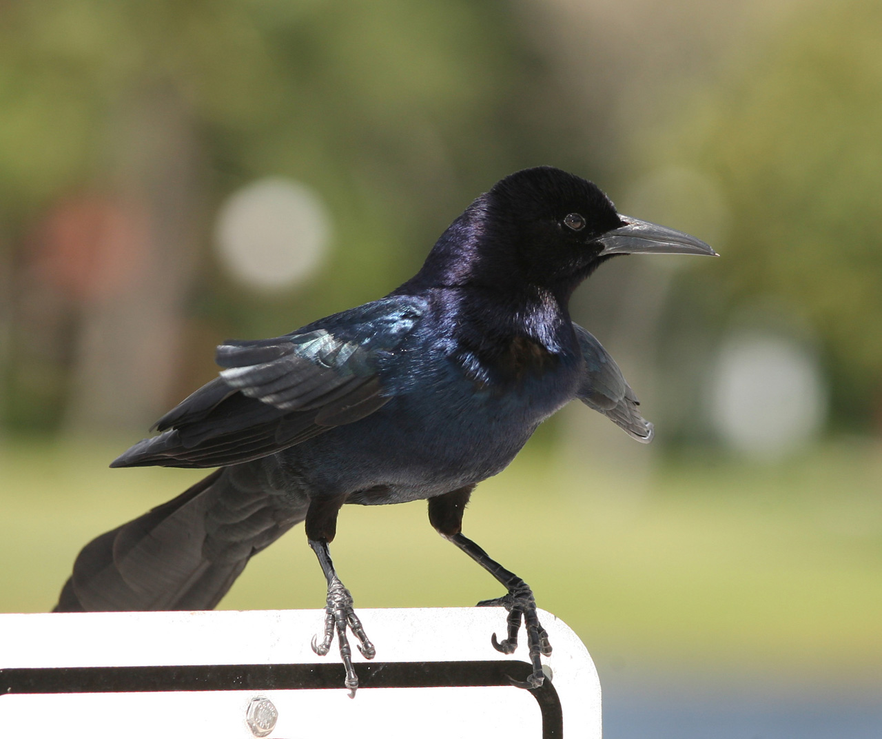 South Florida (dark-eyed) male Boat-tailed Grackle Quiscalus major westoni